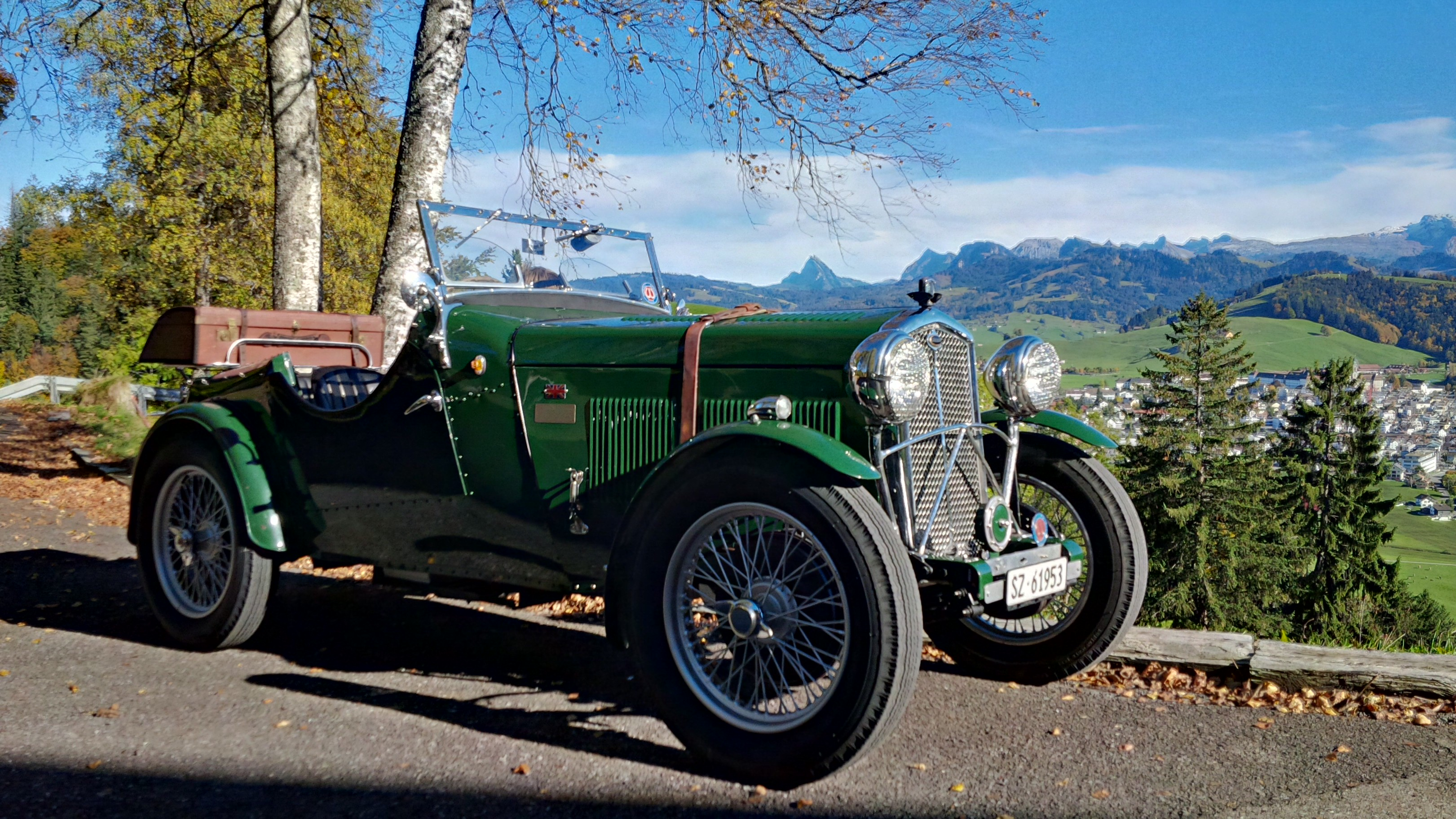 Body type: Eustace Watkins Daytona Tourer